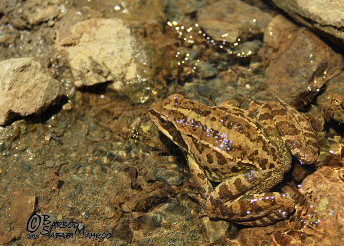 Long-legged wood frog (Rana macrocnemis) from Azarbaijan province (Islamic Republic of Iran).